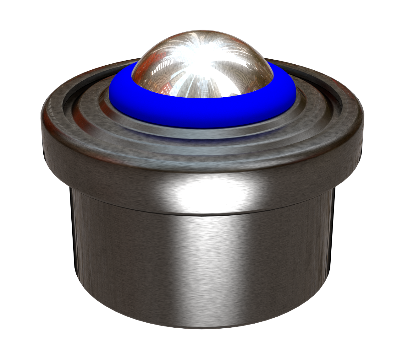 Ray-traced rendered view of a ball transfer unit.